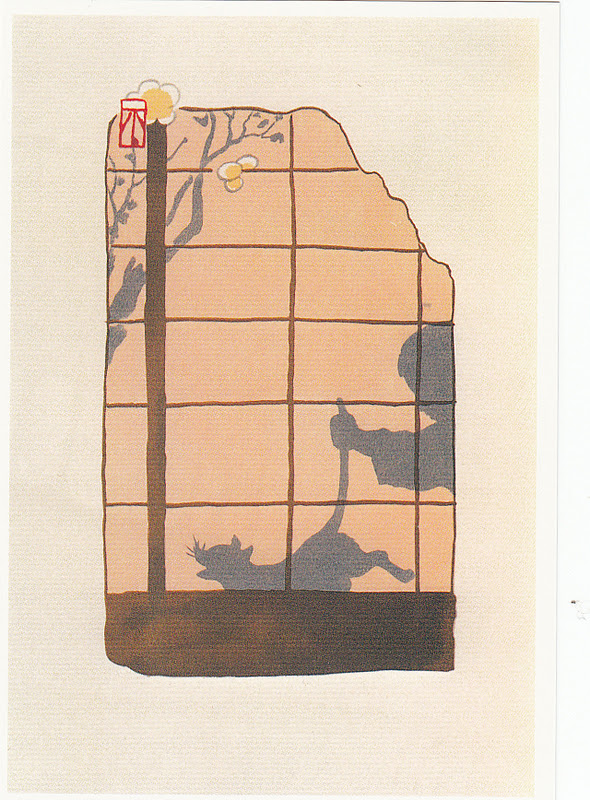 Illustration of "I Am a Cat".